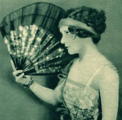 Mabel Ballin, from a 1923 publication.